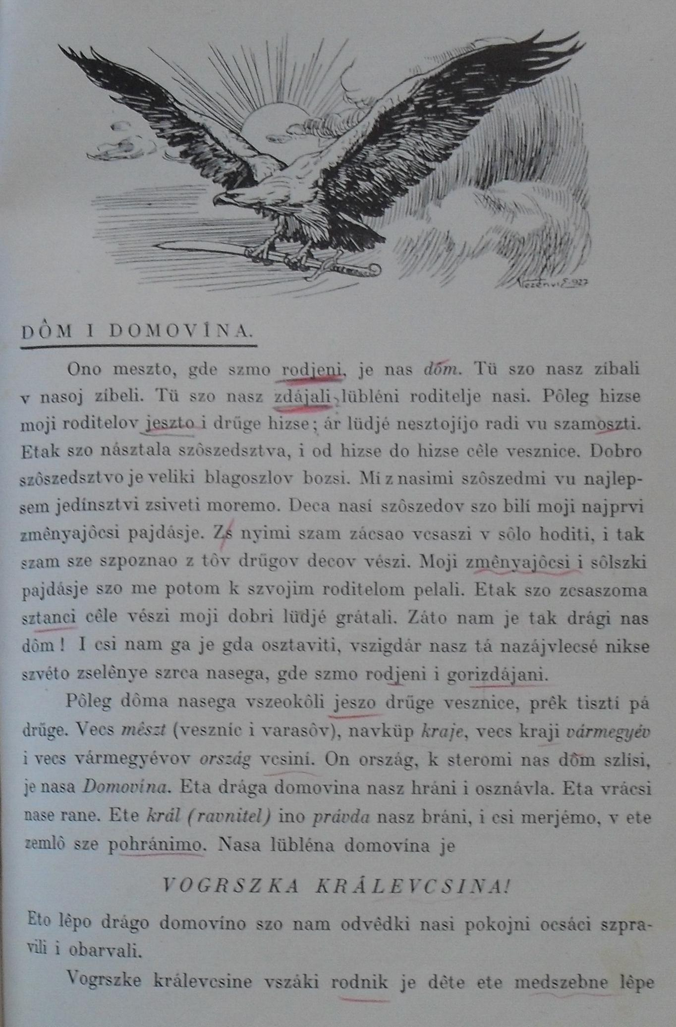 Dom i Domovina (Home and Mother-home) in the Vend-szlovenszka kniga cstenyá. His game: the brainwashing of the Slovenes for Hungarian nationality